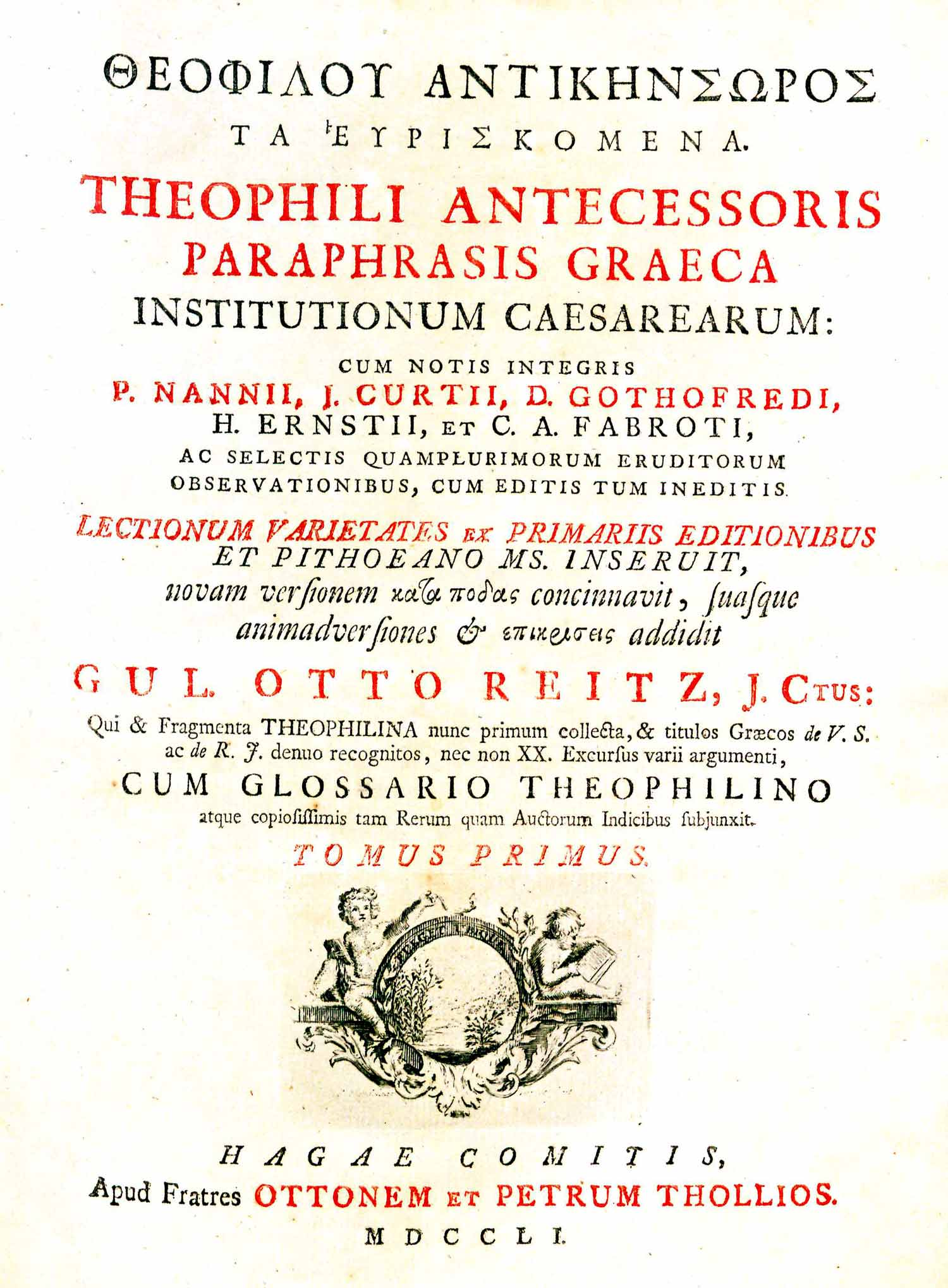 Theophili paraphrasis institutionum graeca. Front page of the translation made by WIllhelm Otto Reitz, Hague, 1751 Theophili paraphrasis institutionum graeca (Greek: Θεόφιλου αντικήνσορος τα ινστιτούτα) was a collection of byzantine legal texts from the time of Justinian I (5th/6th c.), composed by Theophilus the Antecessor.